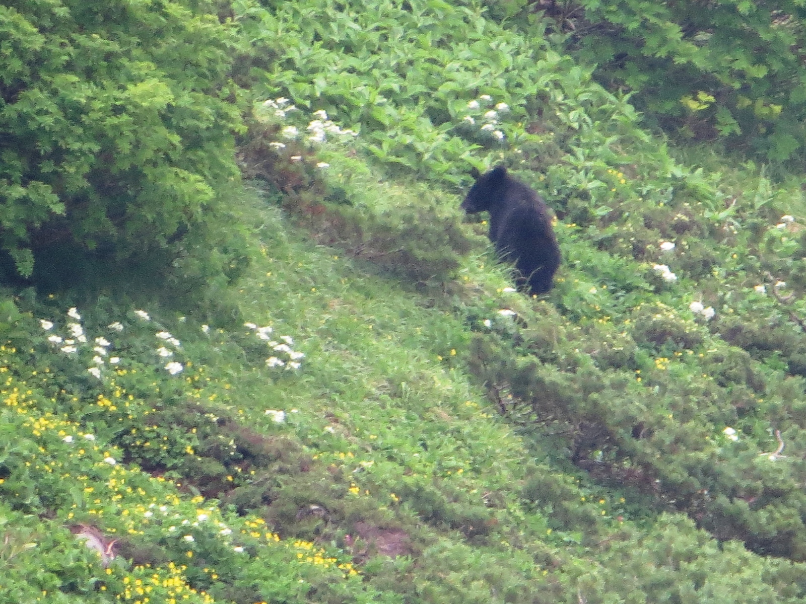 Ursus thibetanus japonicus eating plants, in Mount Norikura, in Gifu pref., Japan.